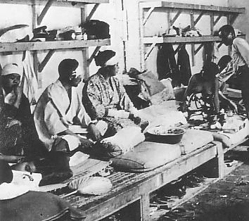 Survivor of Tungchow Mutiny